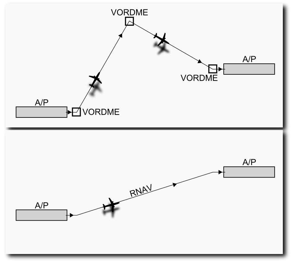 VORDME vs. RNAV flight model